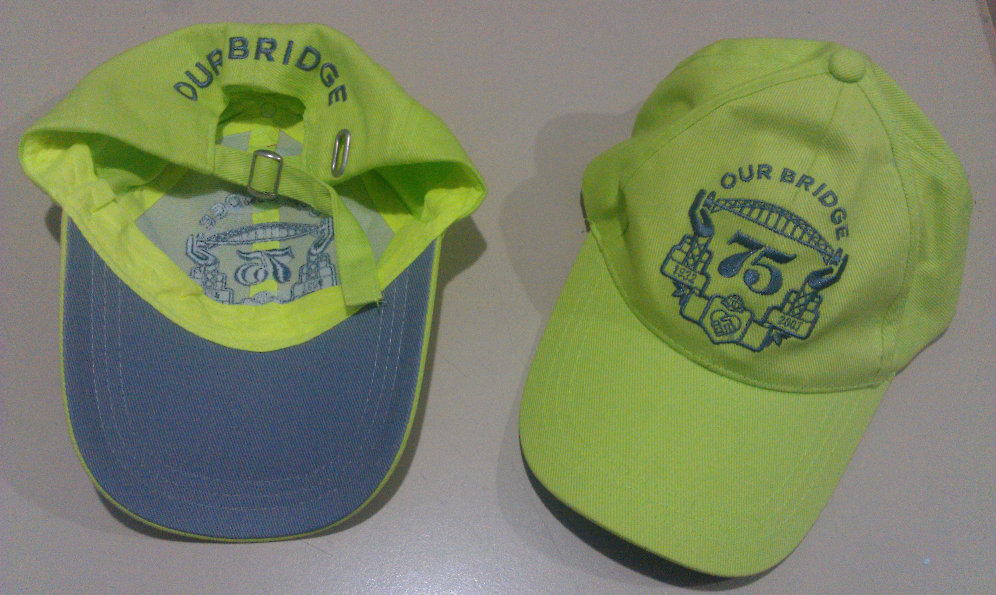 sydney harbour bridge 75th anniversary hats